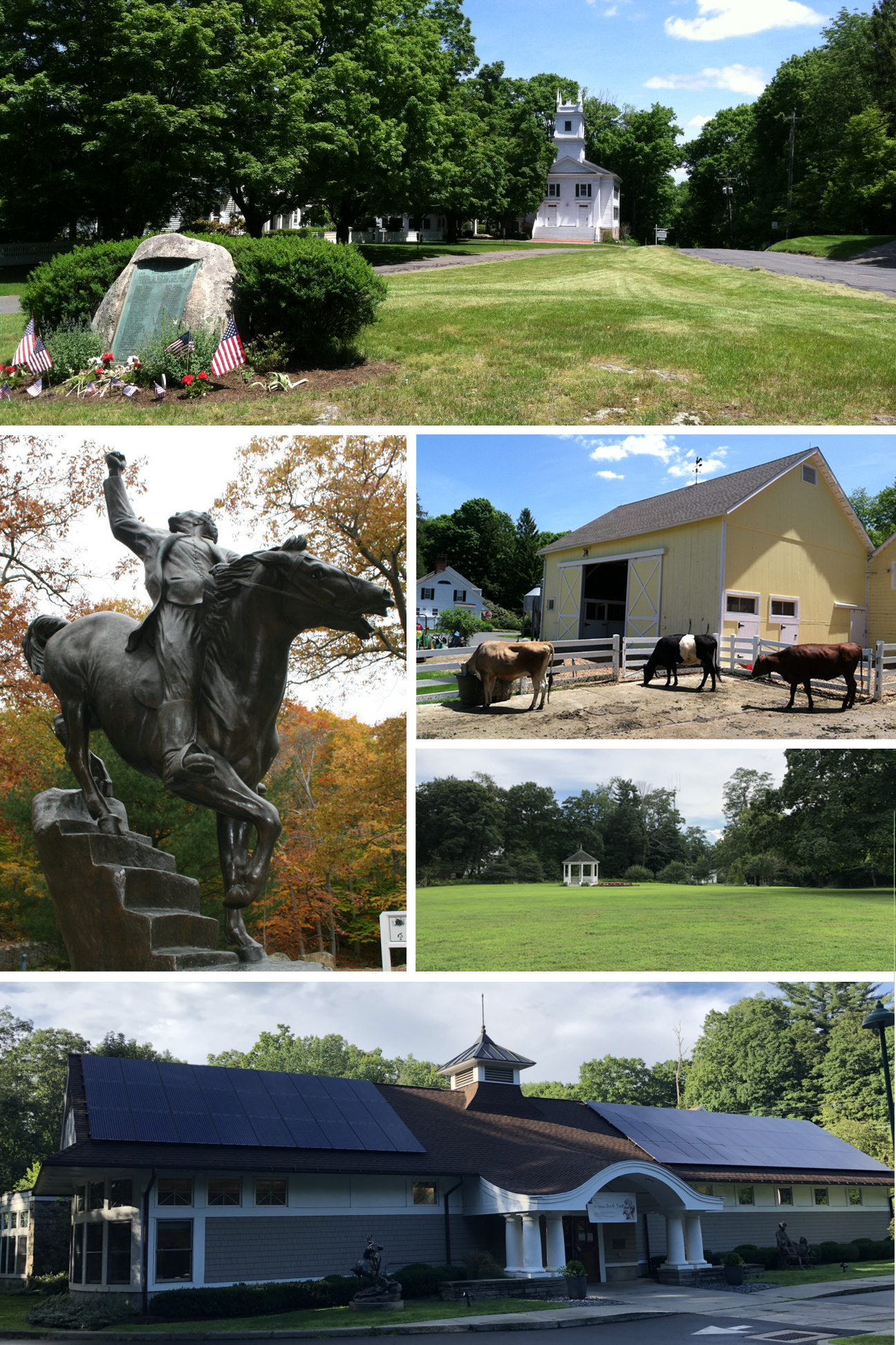 Montage of photos from Redding, CT